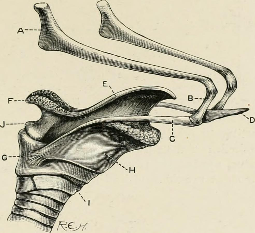 Title: The horse, its treatment in health and disease with a complete guide to breeding, training and management Year: 1906 (1900s) Authors: Axe, J. Wortley Subjects: Horses Publisher: London, Gresham Pub. Co. Text Appearing Before Image: Os Hyoides or Tongue Bone. — This bone is situated in the region of the throat, and is composed of five distinct pieces. One is formed like a spur, having a short, pointed process projecting forward, and embedded in the root of the tongue, and the heel - like branches directed backwards to be connected with the larynx or upper part of the windpipe. The others, two flat slender pieces on either side (superior and inferior cornua), are united together and attached above to the petrous temporal bone at the base of the cranium by means of a short rod of cartilage. The several parts composing the bone are joined together by articulations, some of which form free-moving joints, to which the extreme mobility of the tongue is due. Text Appearing After Image: Fig. 291.—The Hyoid Bone and the Larynx A, Superior or Long Conu of Os Hyoides. B, Inferior or Short Cornu. C, Thyroid or Heel-like Process. D, Spur Process. E, Epiglottis. F, Glottis. G, Cricoid Cartilage. H, Thyroid Cartilage. I, First Ring of Trachea. J, Arytenoid Cartilage.